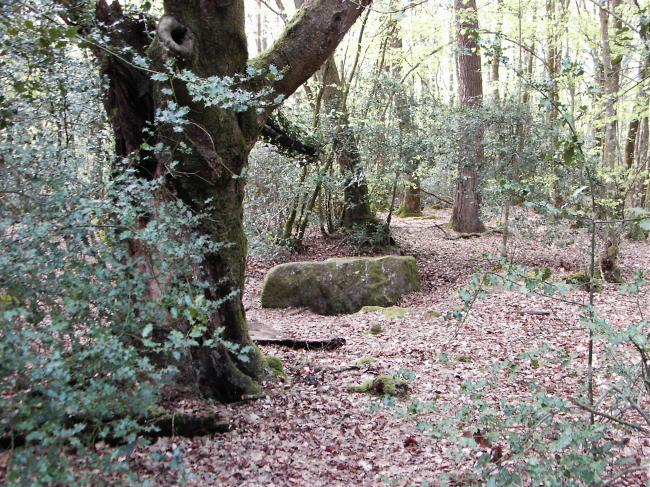 Gréez saint Méen in Talensac